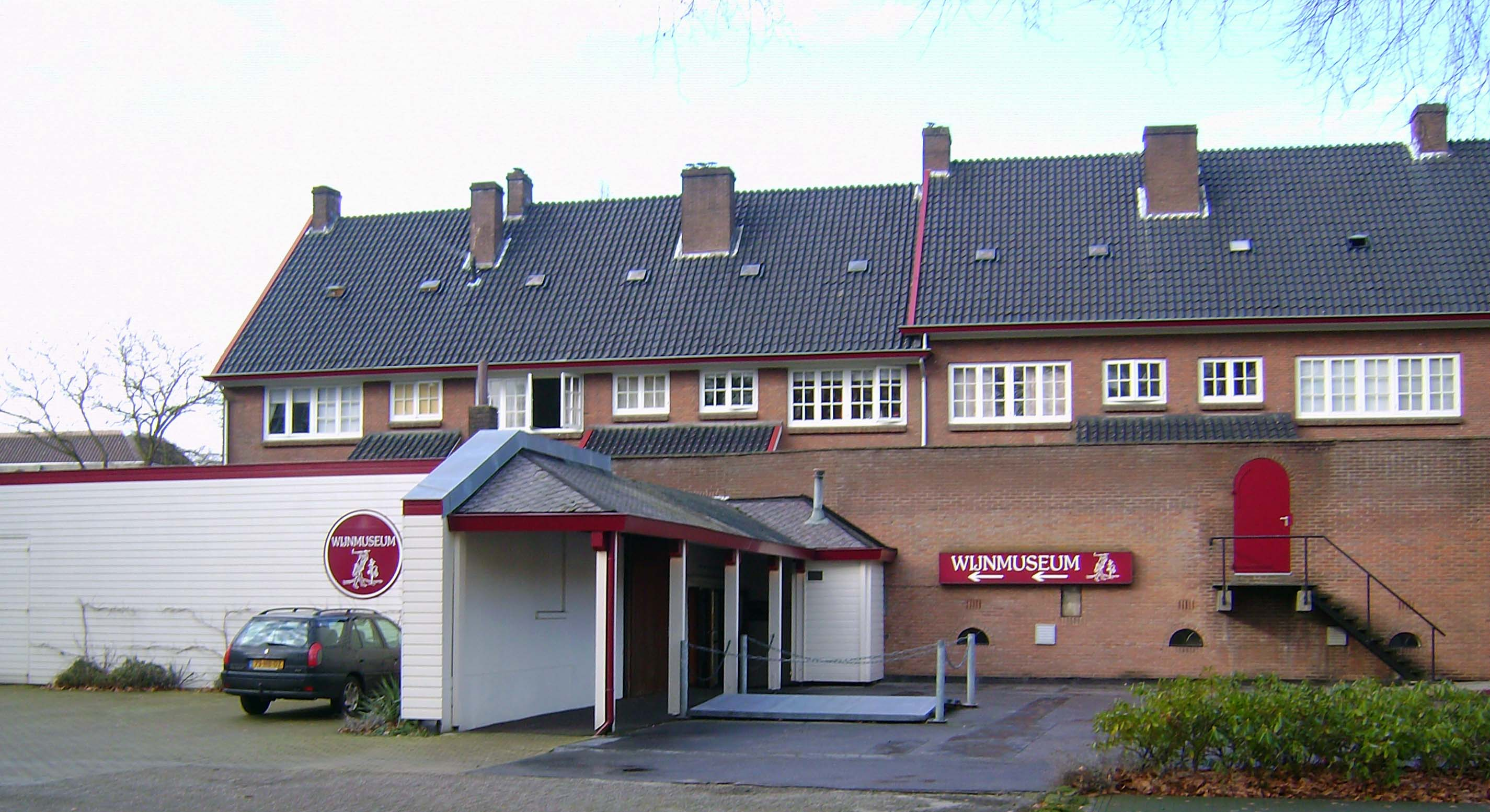 Winemuseum in Arnhem